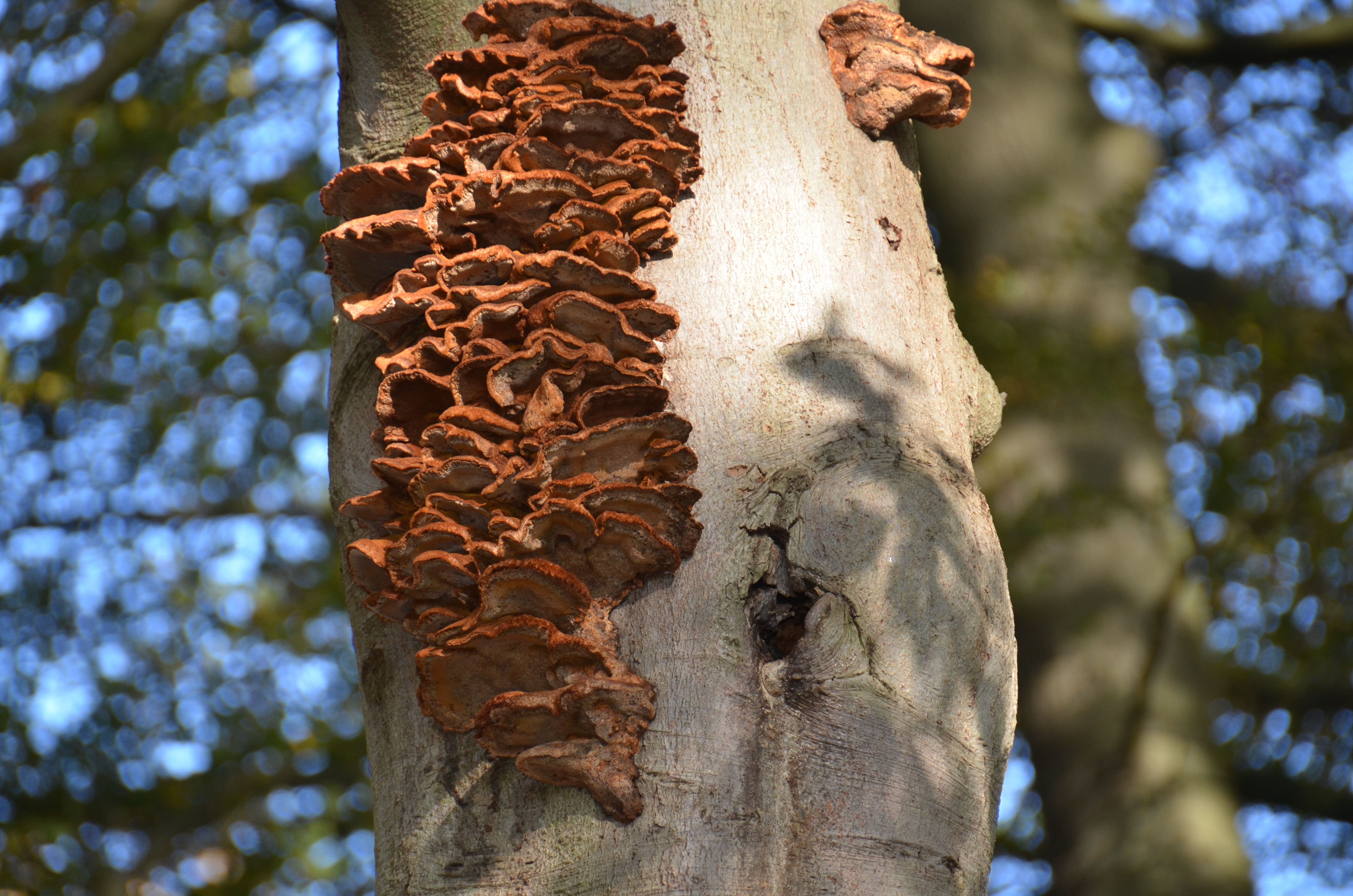 Large group of Inonotus cuticularis (Clustered bracket mushroom or Dunne weerschijnzwam) at a still living beech at Schaarsbergen. They appear always at beeches and are common in this region.